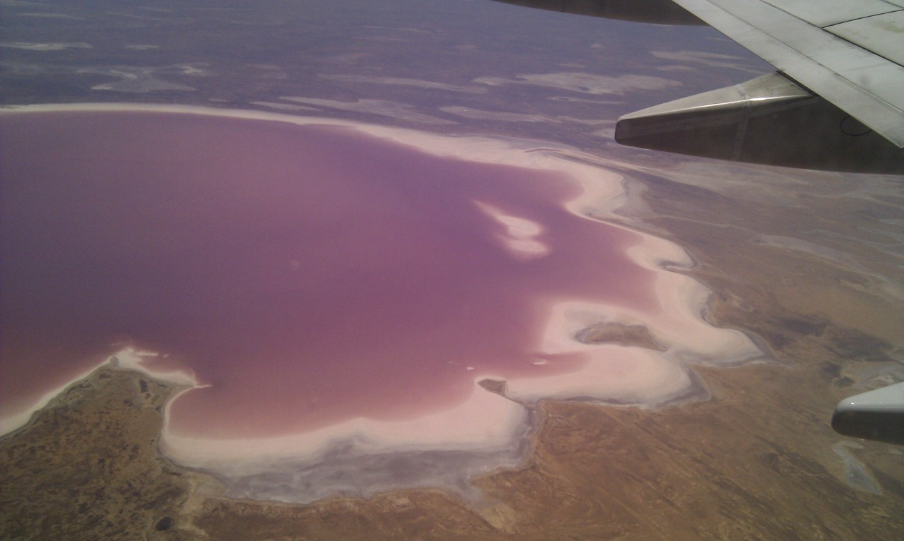 Lake Eyre taken on a flight from Alice Springs to Melbourne in November 2011. The striking pink colouration is from an algal bloom.